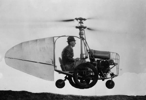 original description: "Built by Jess Dixon of Andalusia, Alabama. Can fly forward, backward or straight up or hover in the air. Runs on road or flys across country. 40 H.P. motor, air cooled, speeds to 100 m.p.h."